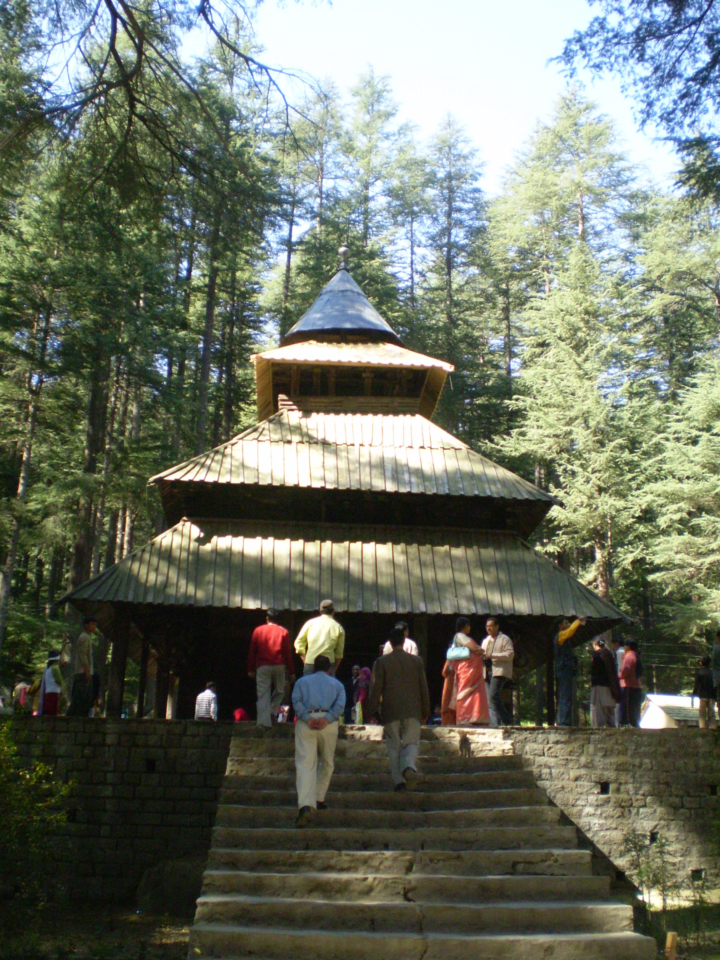 Hirimba Temple at Manali. Trees in background are Cedrus deodara.